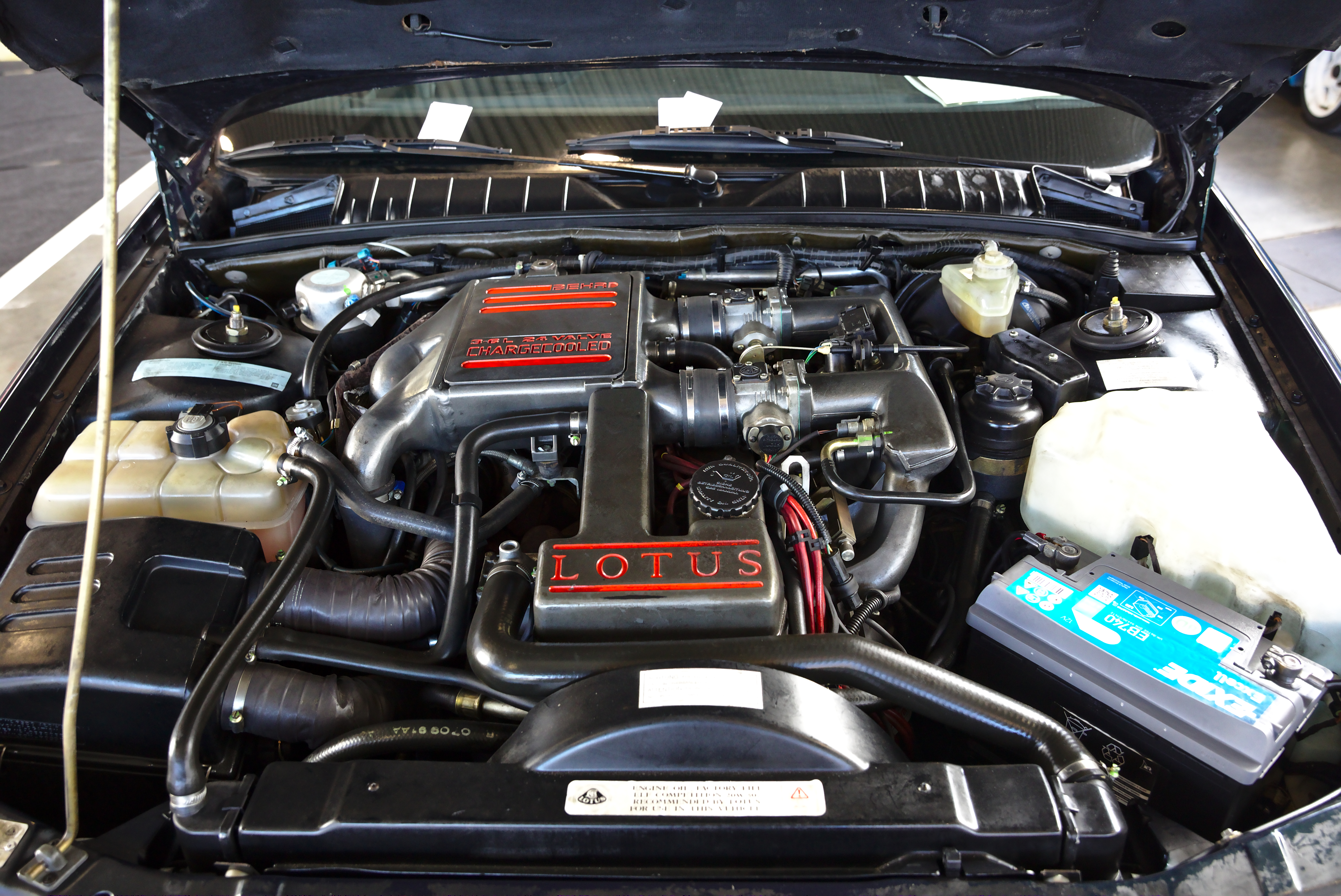 Lotus Omega at Retro Classics 2019